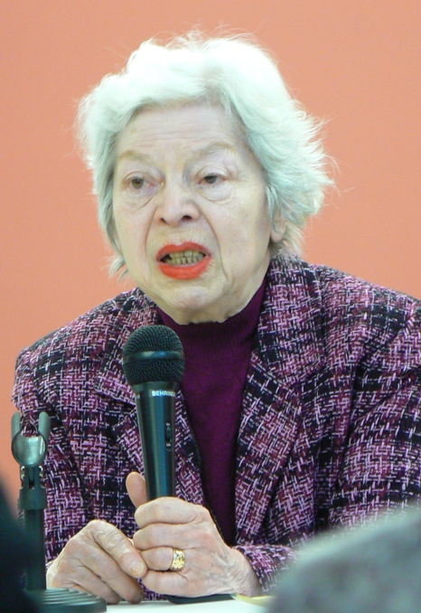 Bulgarian translator Hristiana Vasileva